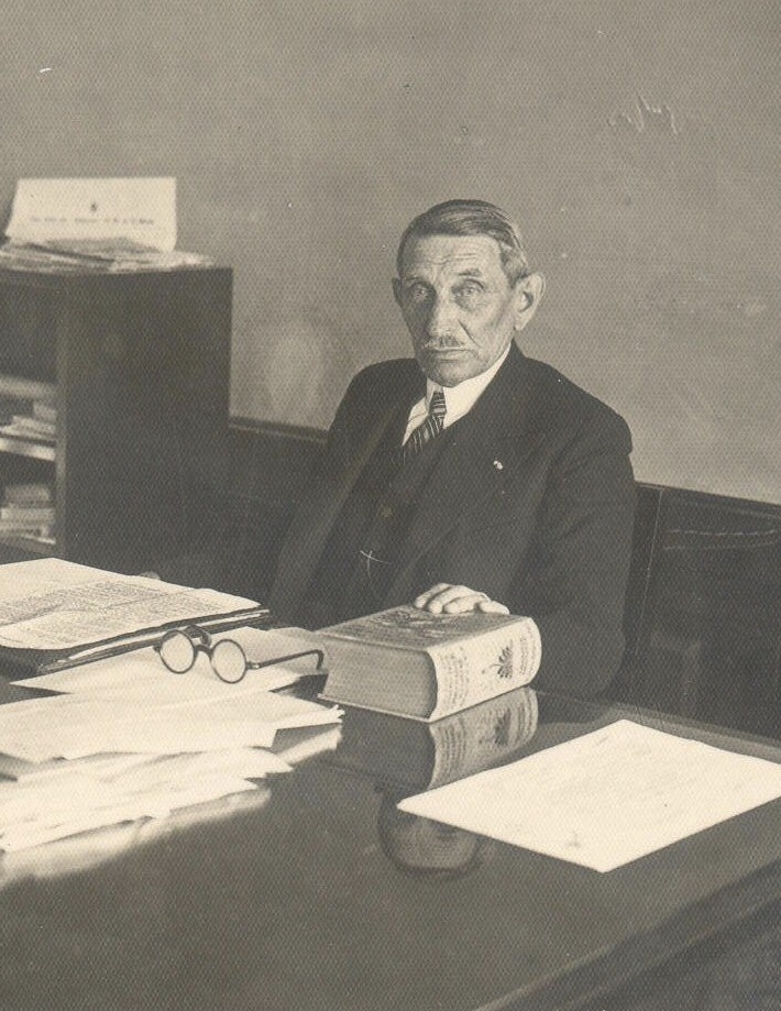 Image of Pandeli Vangjeli in his office